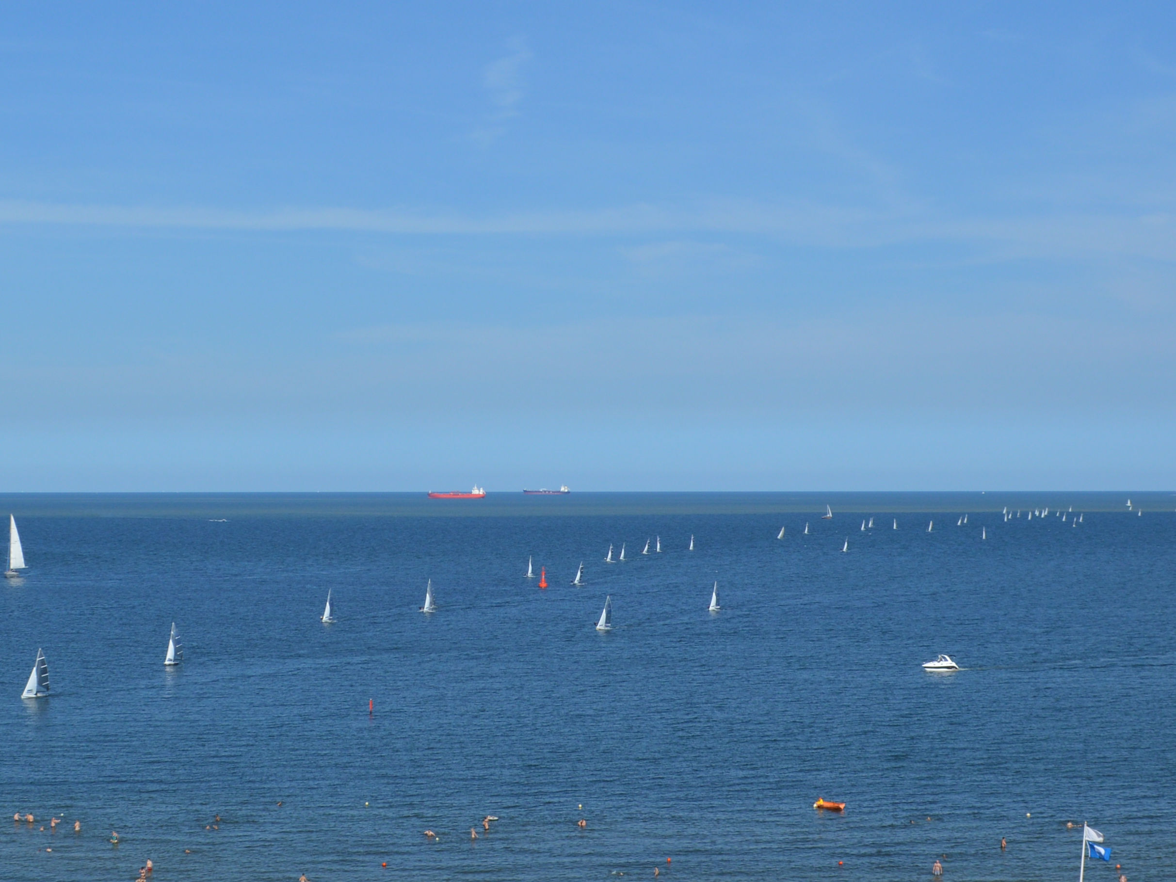 5o5 fleet on the way to back to port on the World Championships 2018 in Gdynia, Poland.